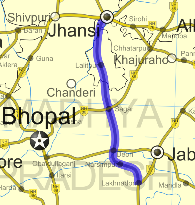 National Highway 26 in India